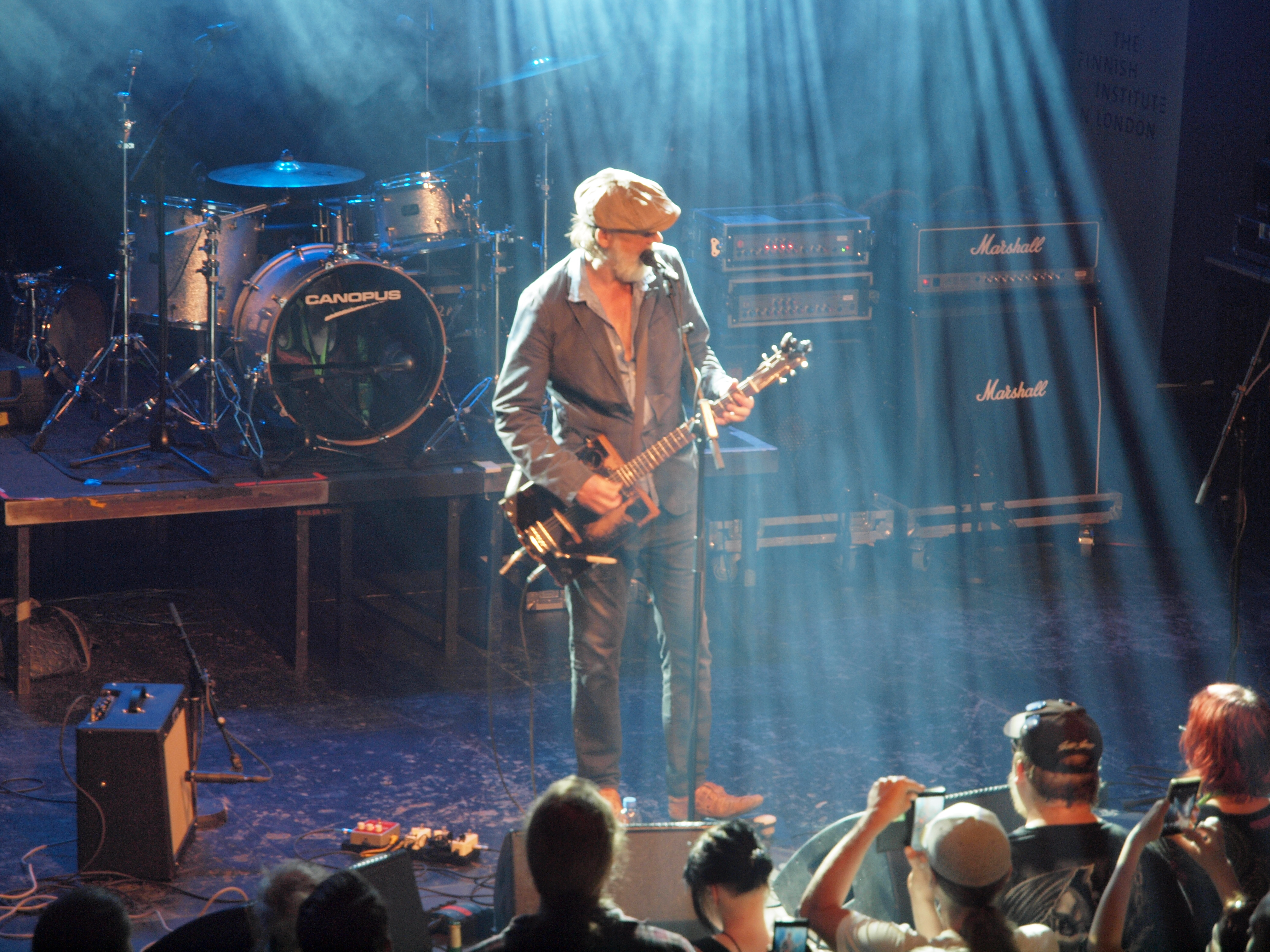 Tuomari Nurmio playing live at the Tavastia Club in Kamppi, Helsinki, Finland.